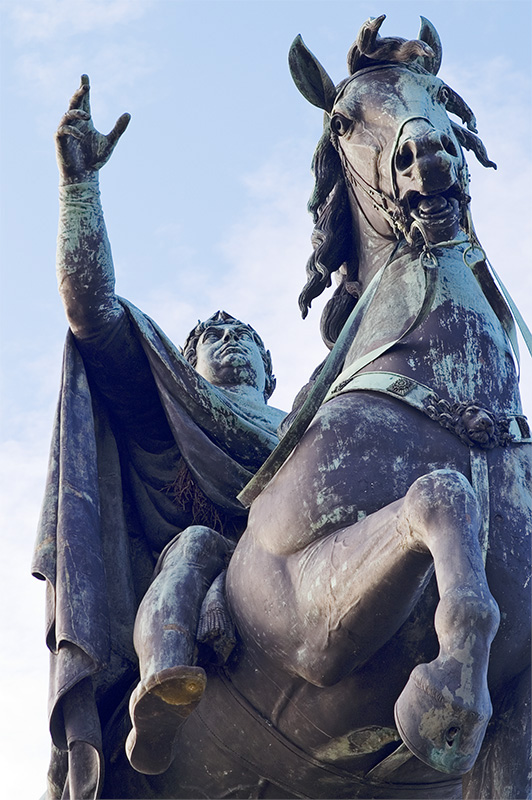 George III depicted in style of Roman Emperor riding stirrupless in equestrian bronze statue at Snow Hill in the Great Park Source: WyrdLight .